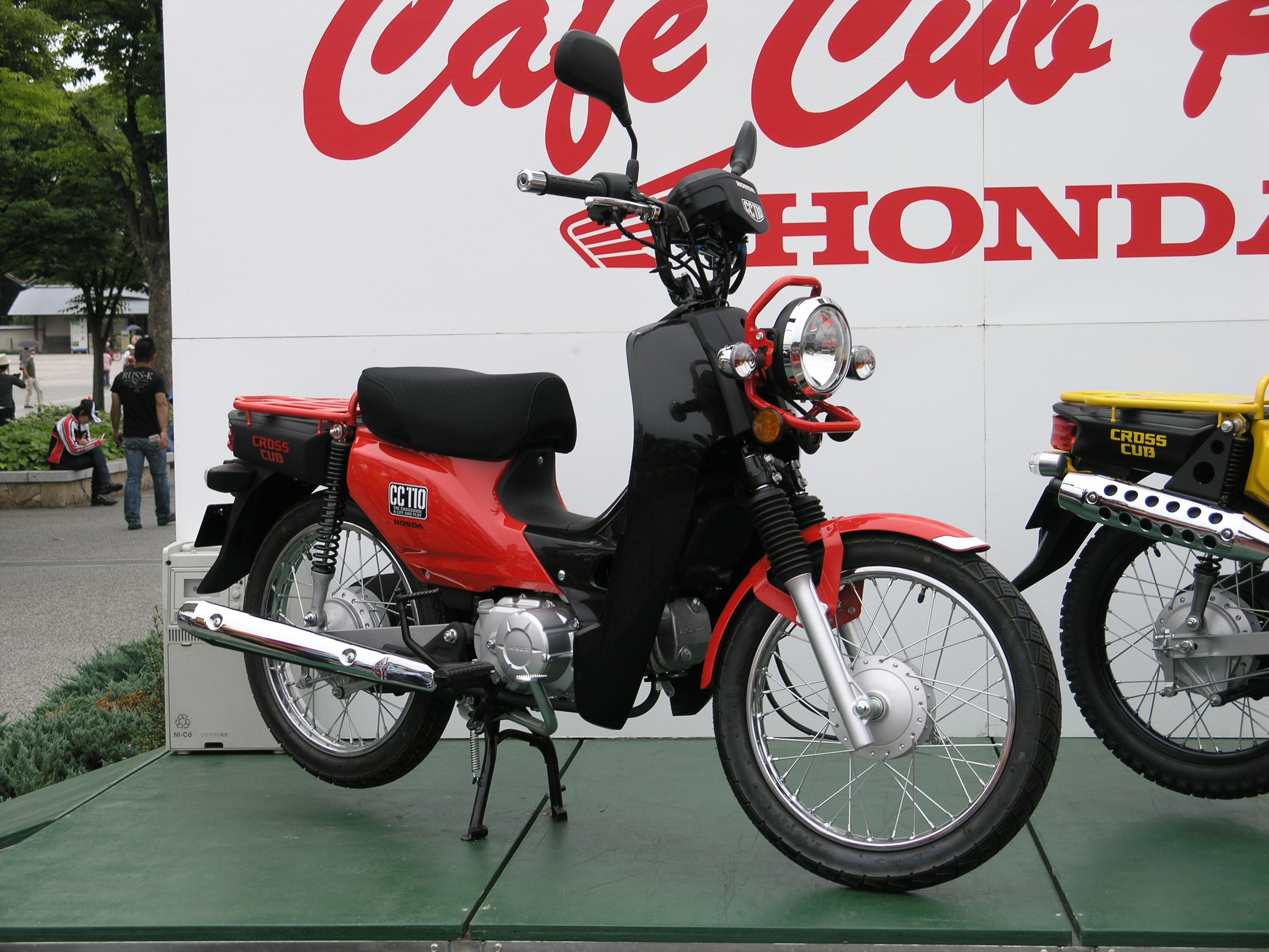 HONDA CrossCub CC110 (EBJ-JA10)